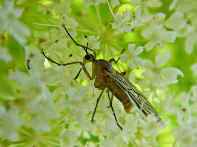 Insect feeding on Bishop's Weed There is an abundance of these flies feeding on plants from the river bank right back to the farm. It is very interesting when you take macro photos to see all the varying and different aspects that all these insects have. Most of us don't appreciate their strange and amazing beauty until we see them close up.Empididae